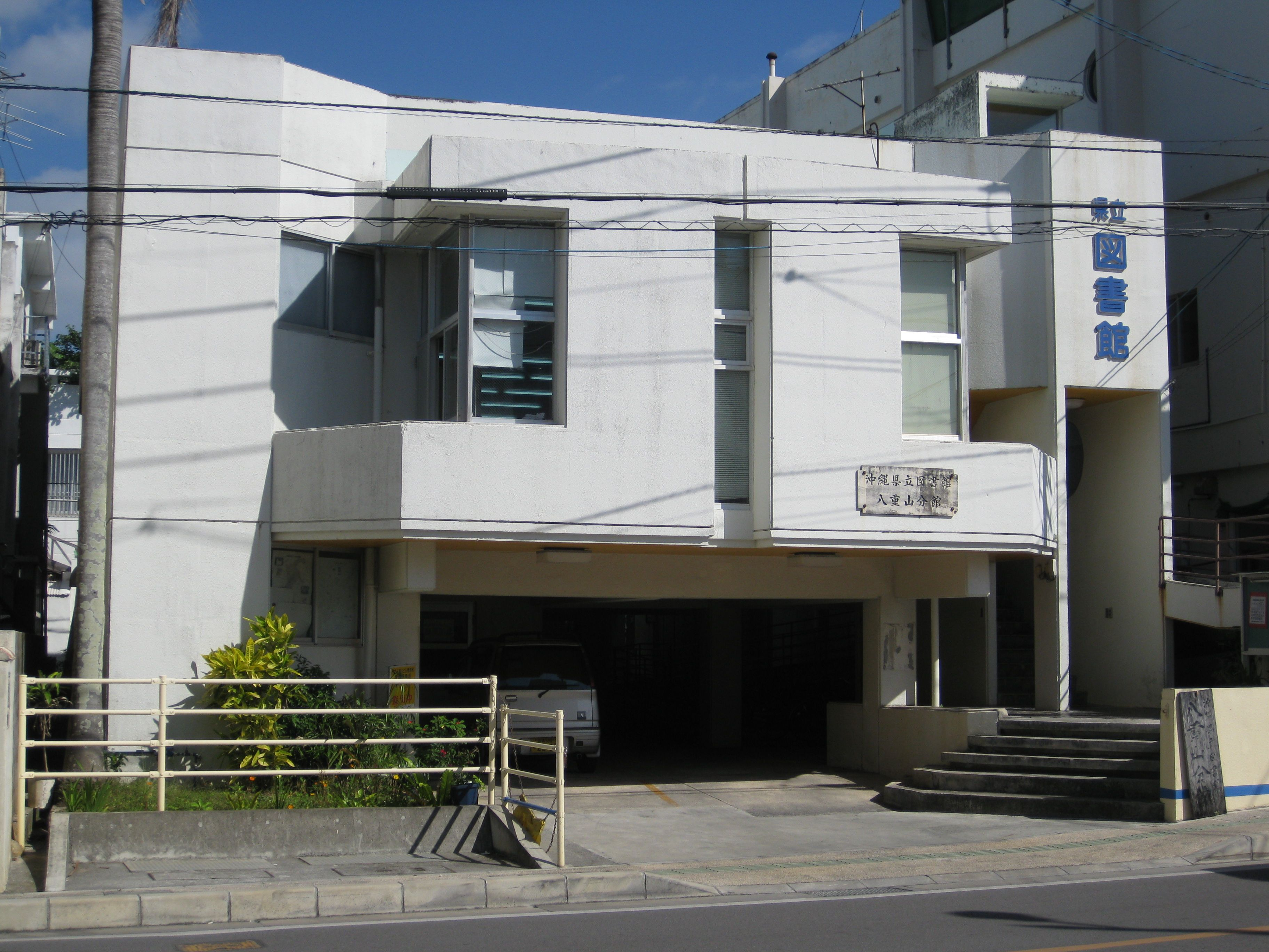 Yaeyama Branch, Okinawa Prefectural Library in Japan